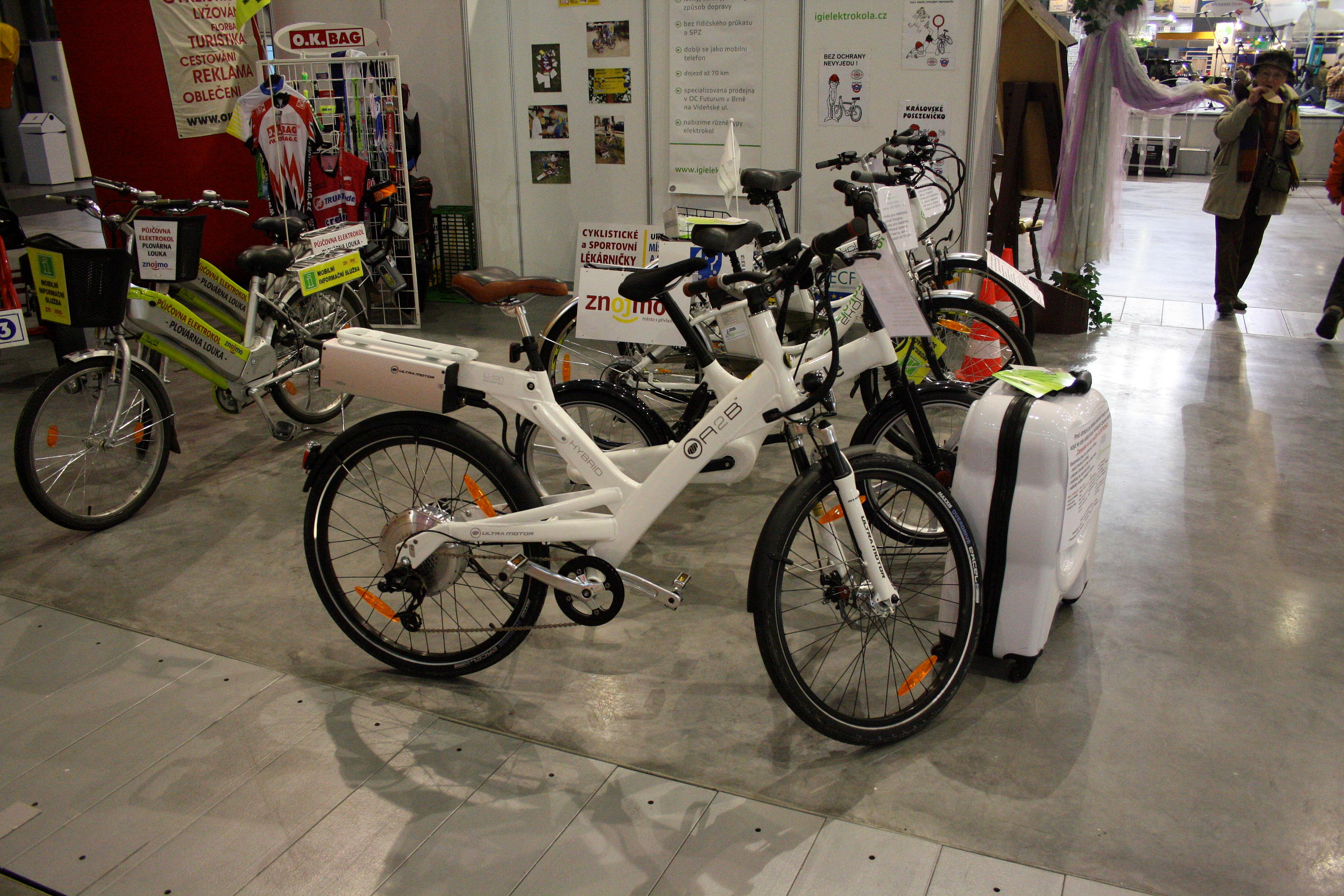 Rental electric bicycles from Znojmo at Regiontour 2010.